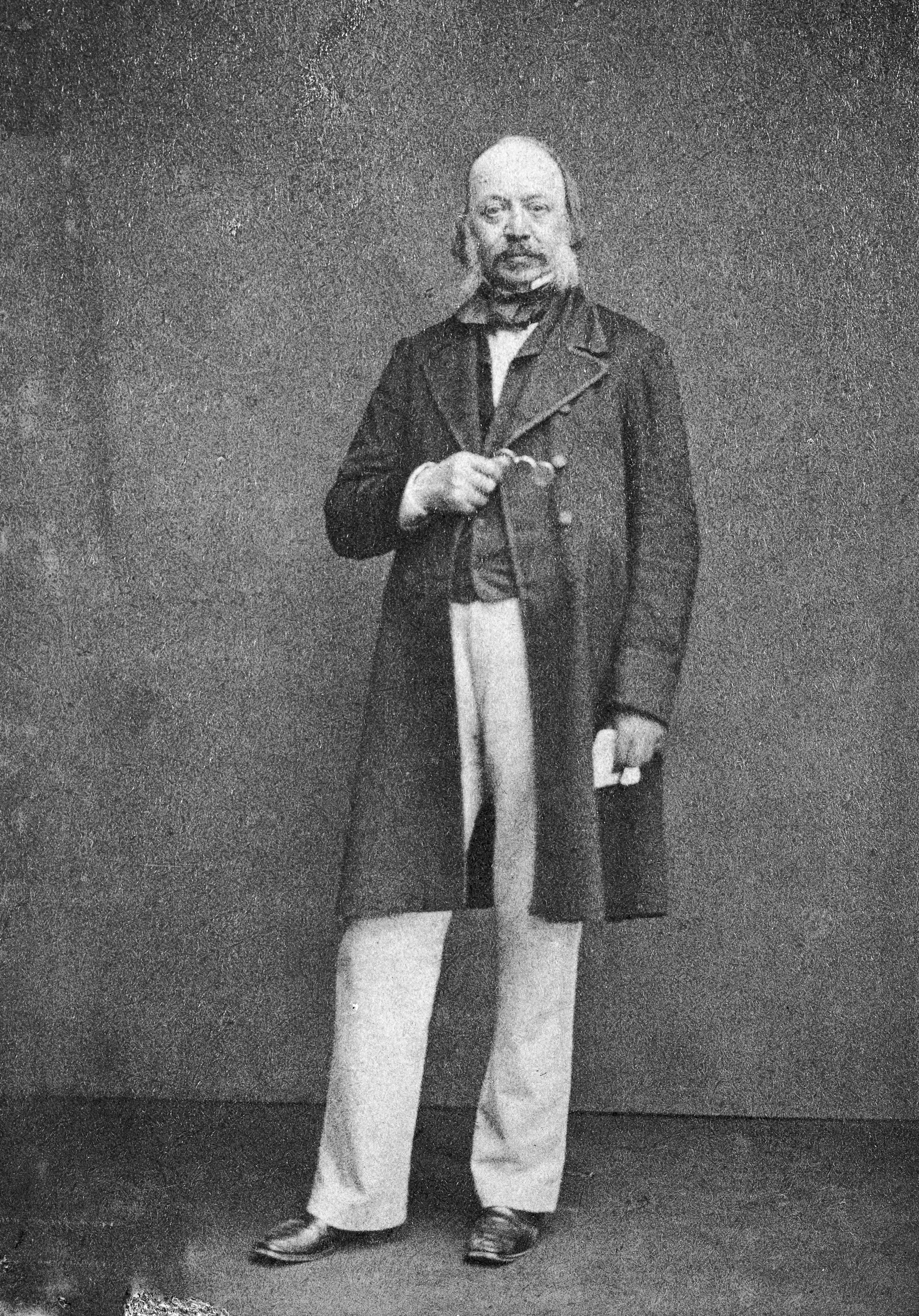 Edwin Chadwick General Collections Keywords: Medicine; Edwin Chadwick; John & Charles Watkins